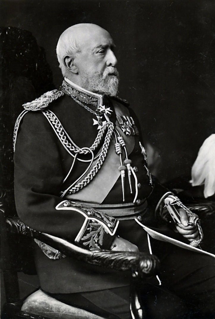 Prince Christian of Schleswig-Holstein, husband of Princess Helena of the United Kingdom